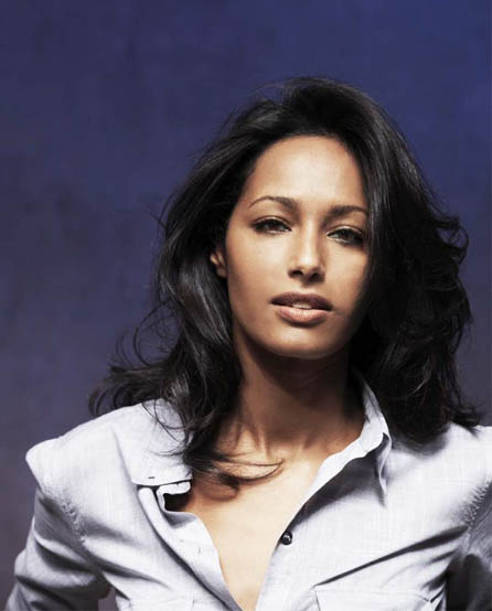 A portrait of Rula Jebreal by Fabrizio Ferri, taken April 24th 2011 in NYC.